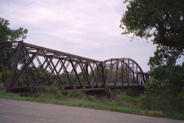 Taken by Smarkflea, evening of August 19, 2006. Looking at bridge from NE of the bridge.